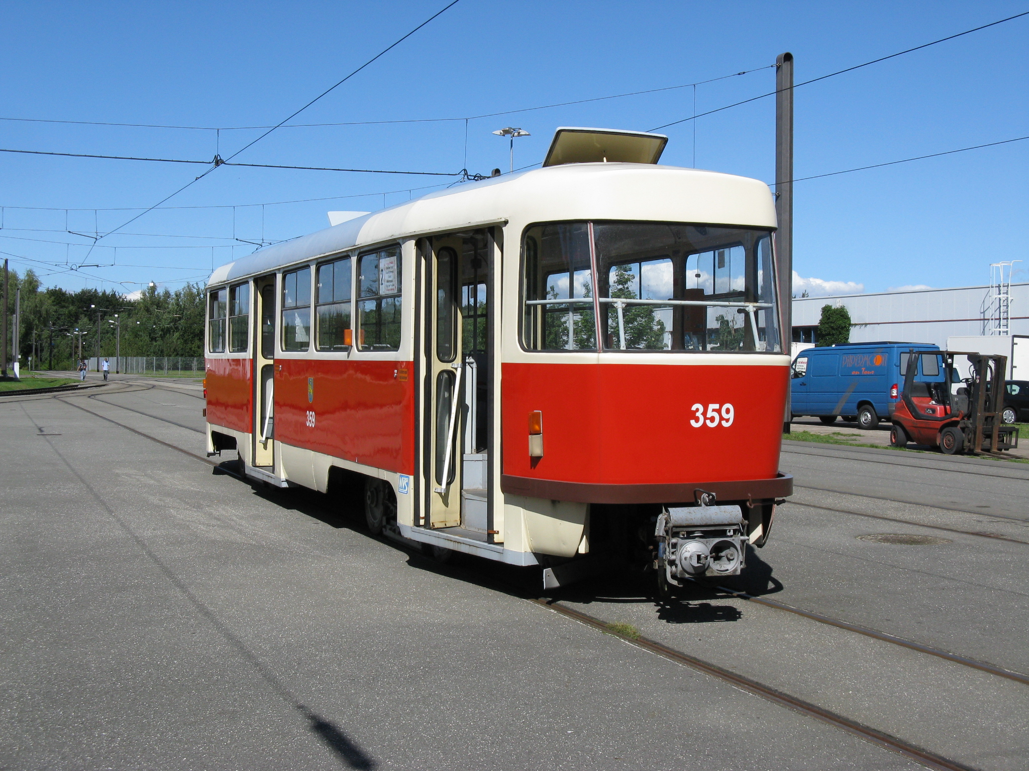 Public transport Schwerin, Depot Haselholz, Schwerin, Germany.